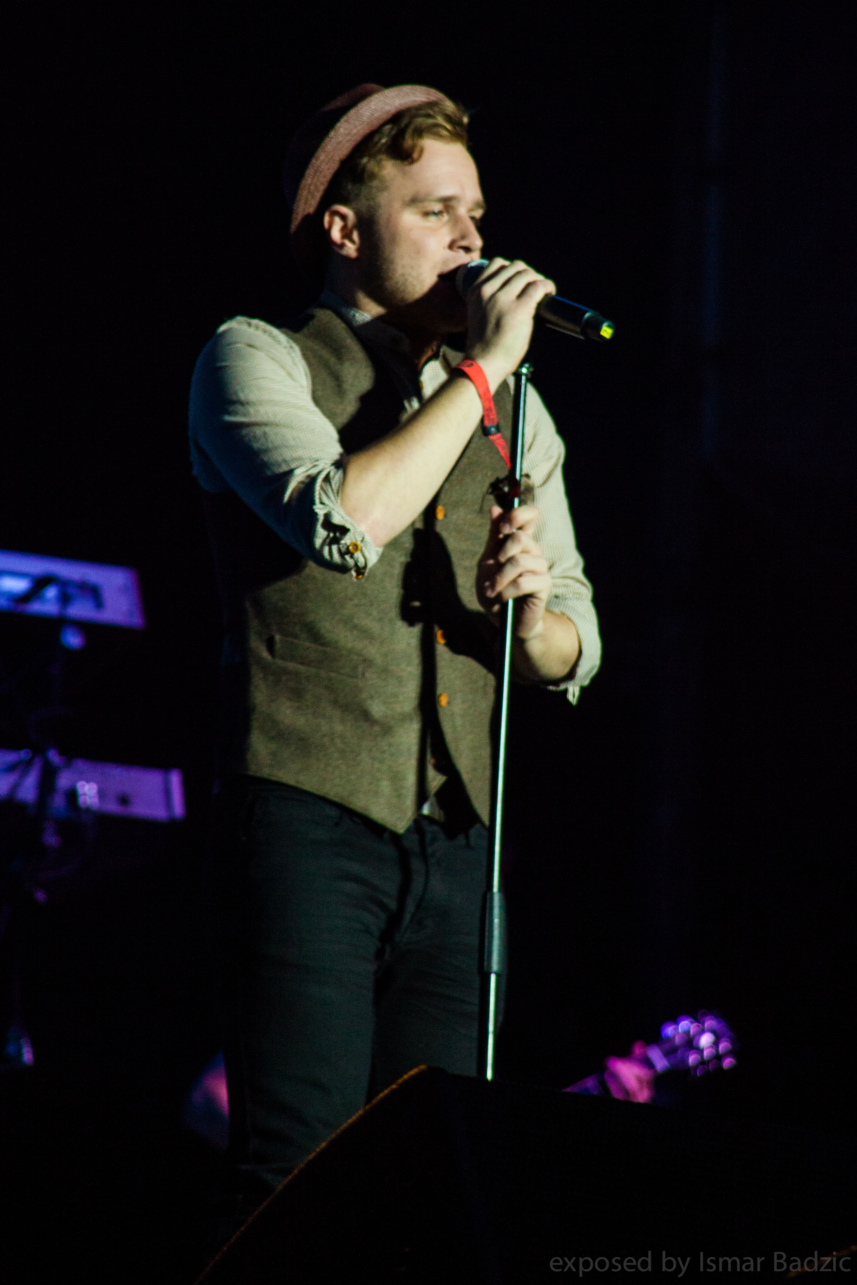 Olly Murs on july of 2012